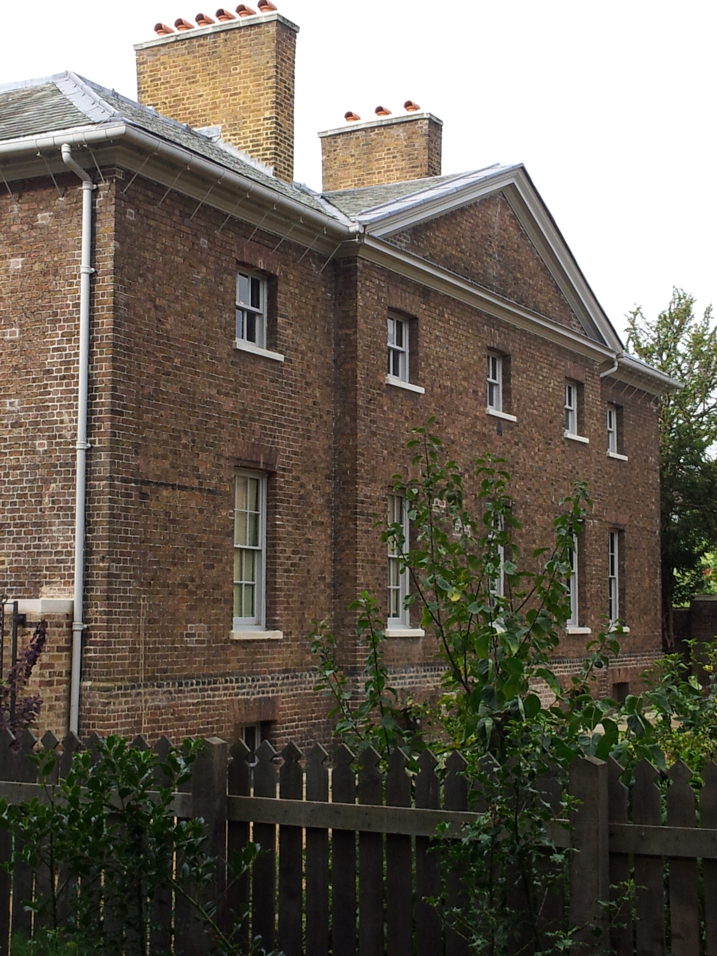 Georgian kitchens at Kew Palace, London